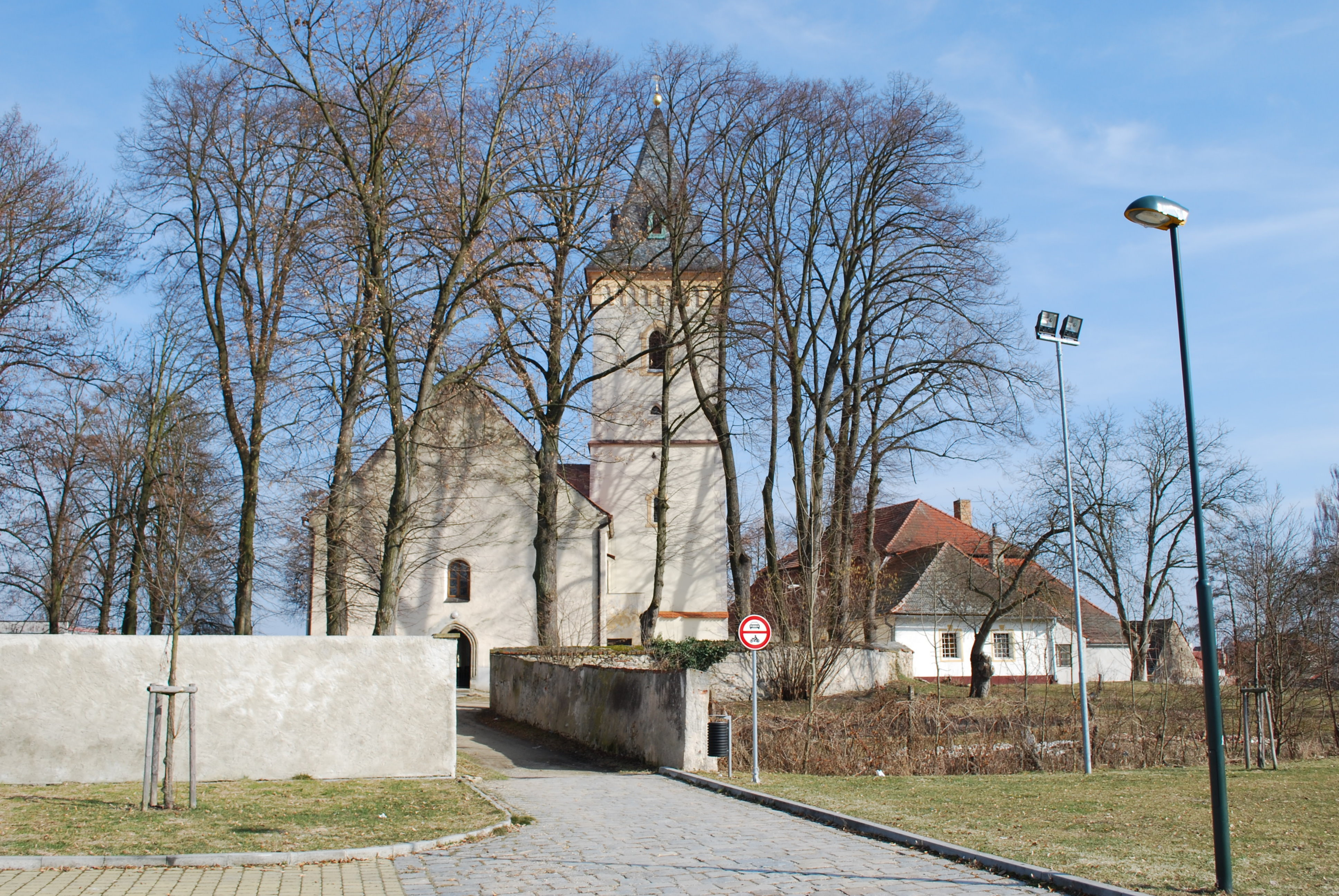 Church of Jan Křtitele in Lomnice nad Lužnicí, Jindřichův Hradec District, Czech Republic. This photograph was taken within the scope of the 'Czech Municipalities Photographs' grant. - Google Maps - Google Earth